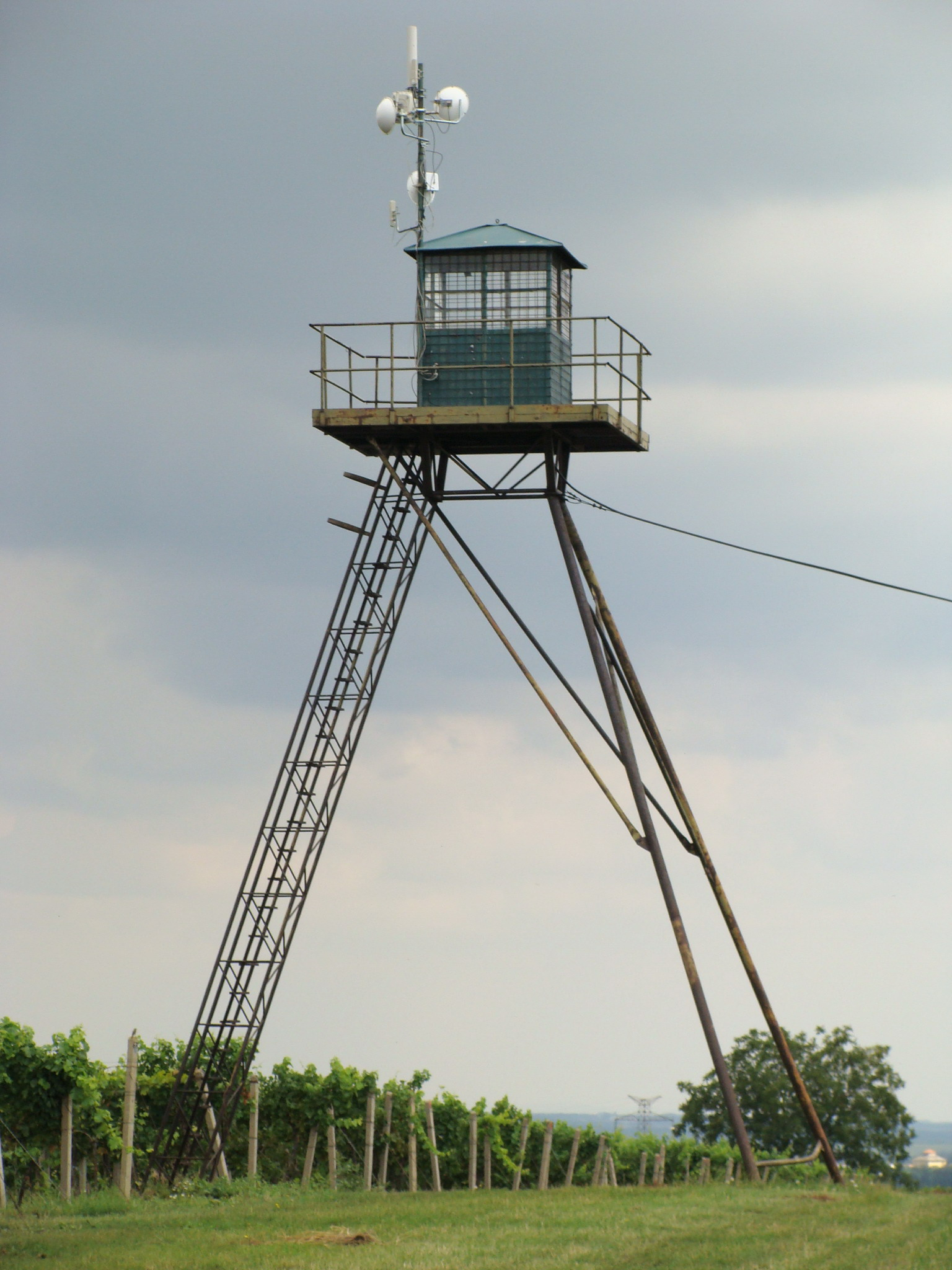 Old Watchtower at Czech-Austrian border near Hatě, CZ